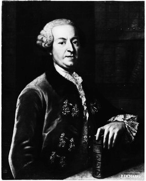 Andreas Felix von Oefele (1706-1780) bayerischer Historiker und Bibliothekar